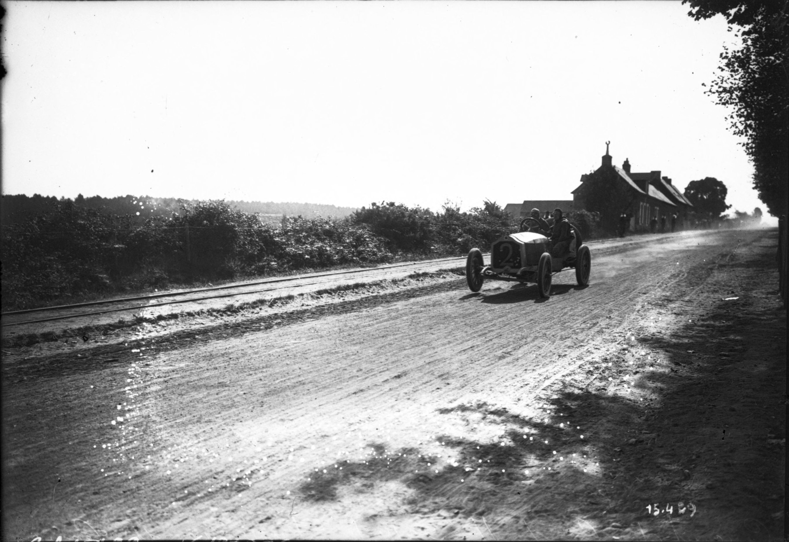 Henri Fournier at the 1911 Grand Prix de France at Le Mans.